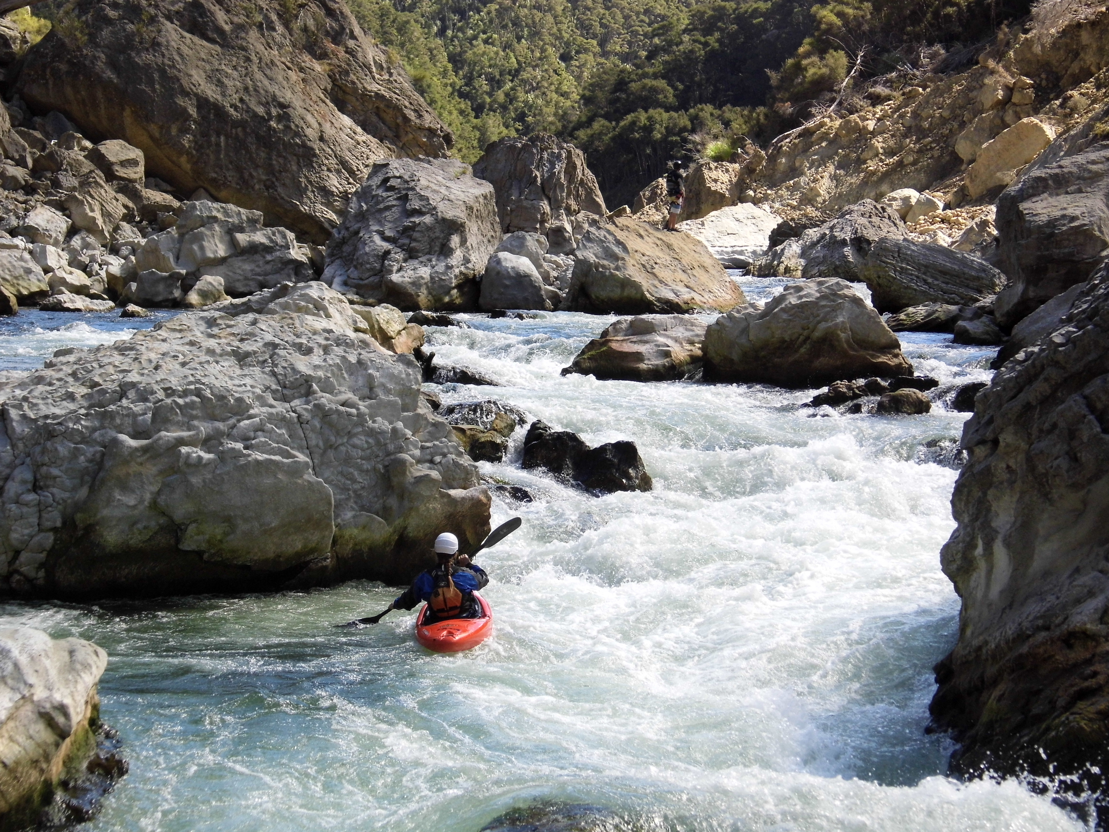 One of the first major rapids below TeKooti's bridge along the Mohaka River